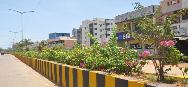 This is the first four lane road constructed at kovur town.